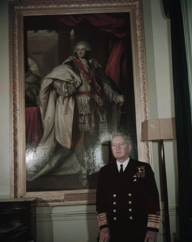 Admiral Sir Bruce Fraser, Gcb, Kbe Portrait of Admiral Sir Bruce Fraser standing in front of a portrait of the Duke of York. Admiral Fraser served as Commander in Chief Eastern Fleet from 1944 and signed the Japanese Terms of Surrender on behalf of Britain on 2 September 1945.